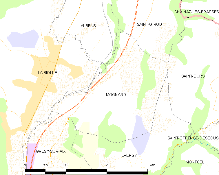 Map of French municipality